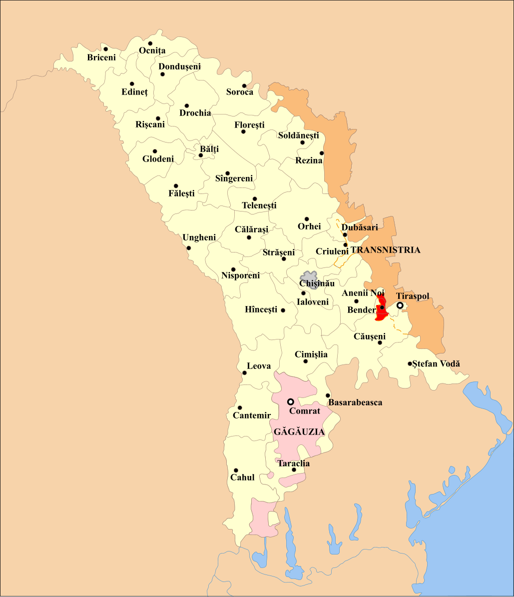 Map of Moldova with municipality of Bender highlighted in red